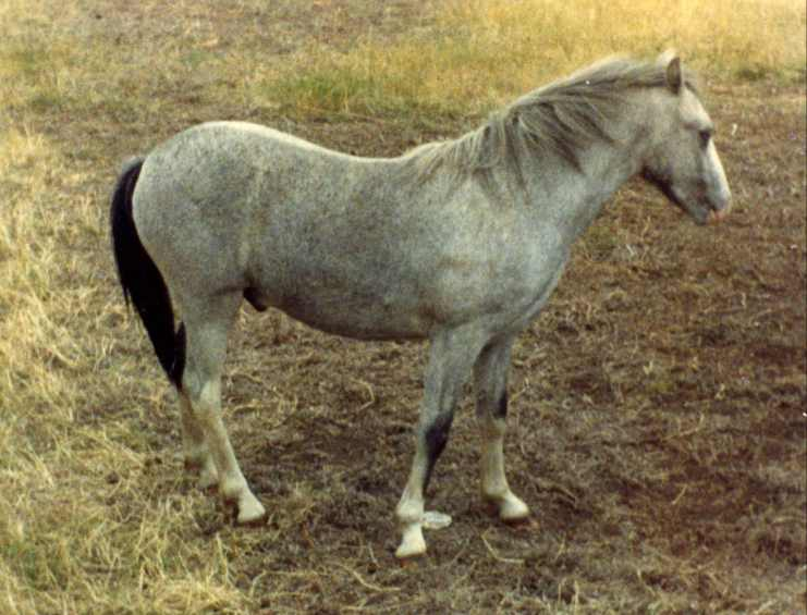 Welsh Mountain Pony (aushorse